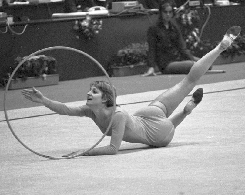 Maria Gigova